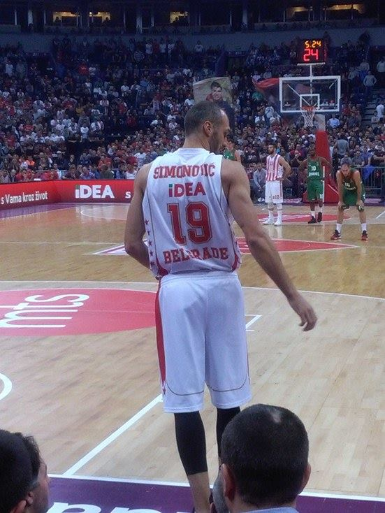 Simonović vs Baskonia